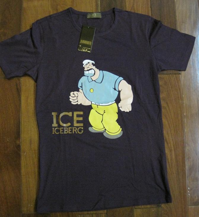 T Shirt for Man